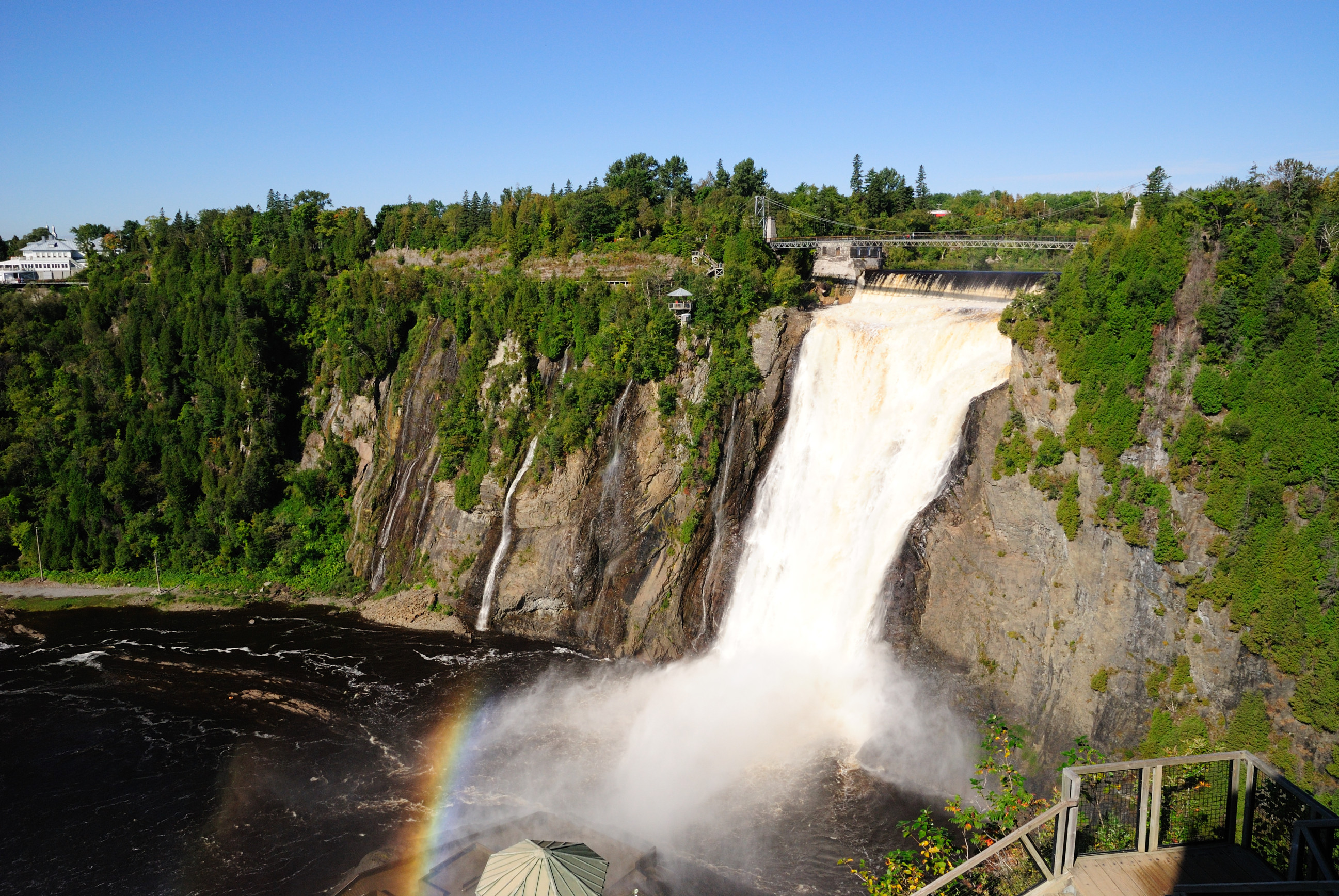 Waterfall Montmorency